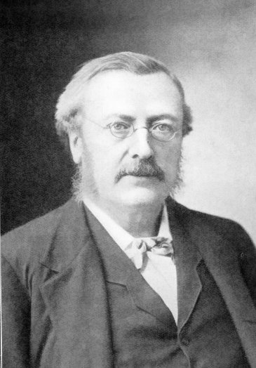 The image of American, composer, conductor Frederic Archer (1838-1901)